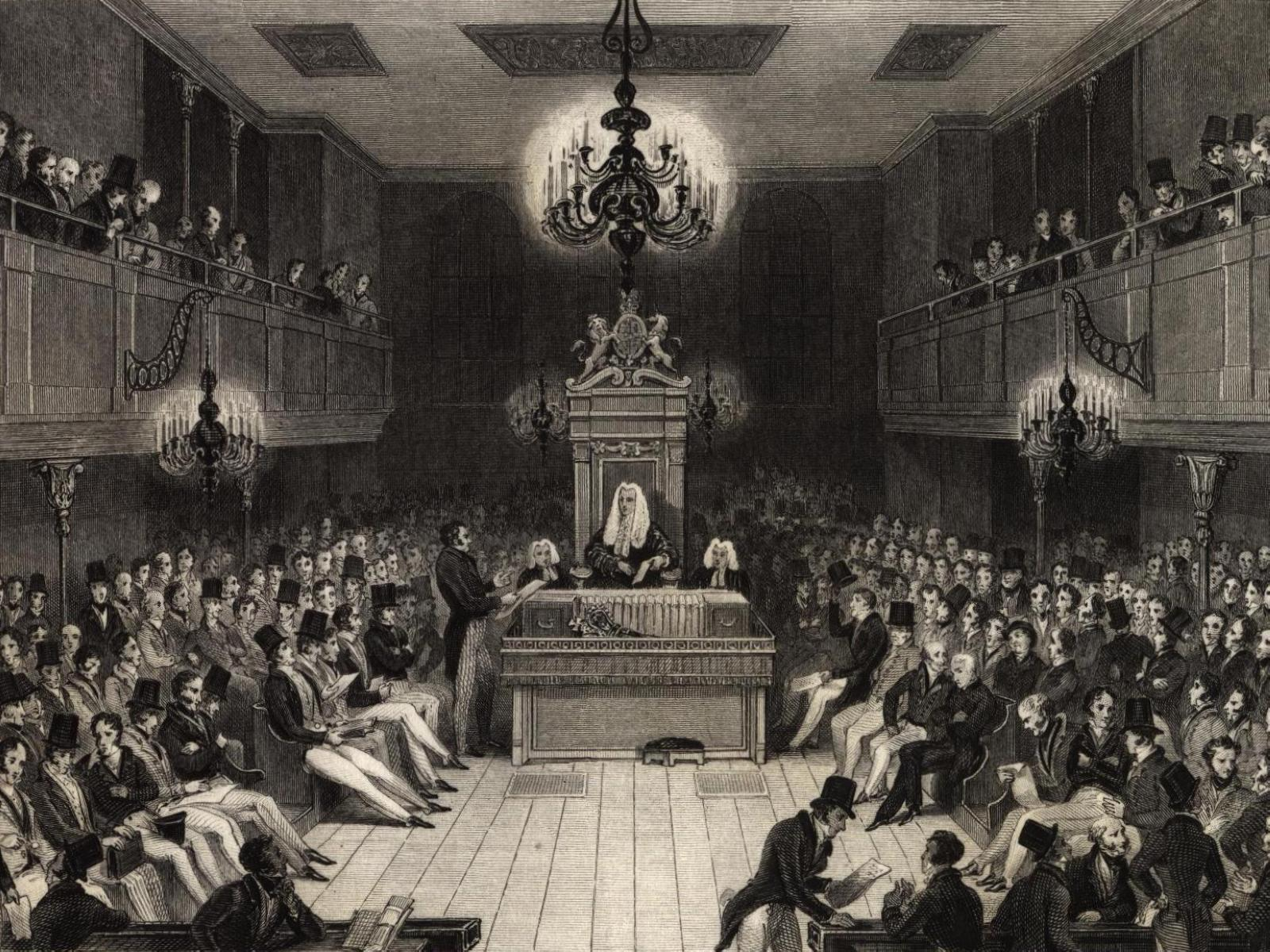 British House of Commons